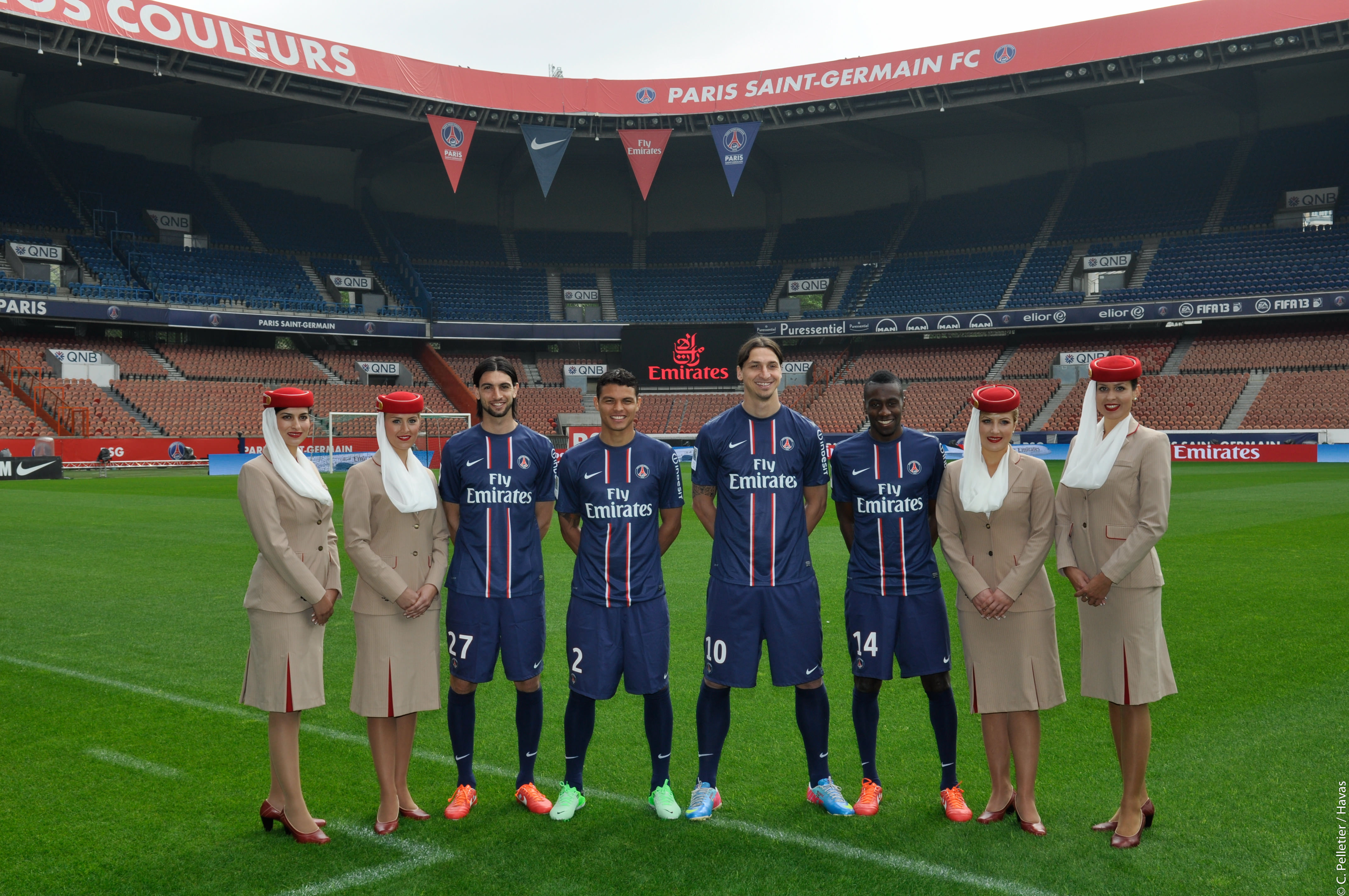 Javier Pastore, Thiago Silva, Zlatan Ibrahimovic, Blaise Matuidi with Emirates flight attendants, 2013 at Parc des Princes in Paris.